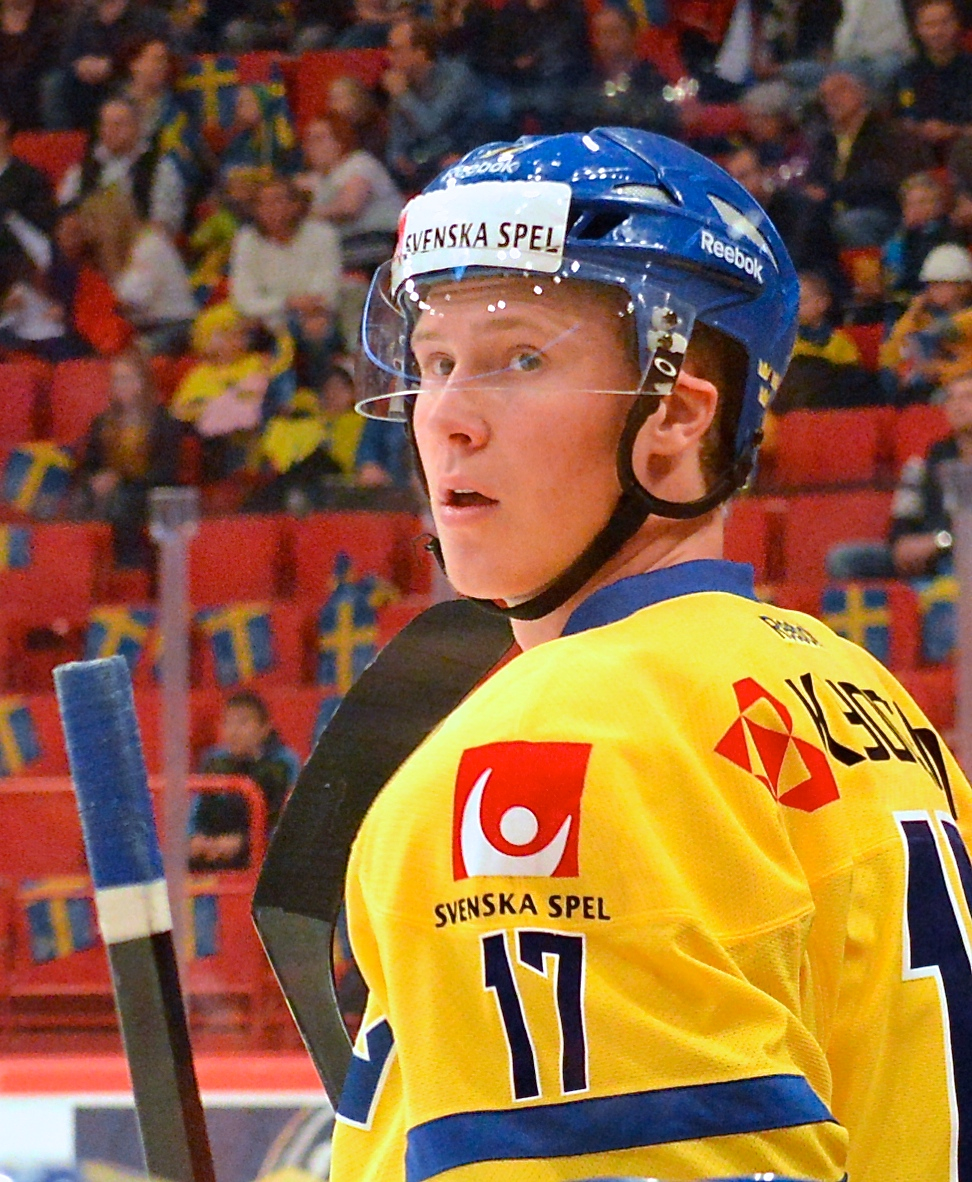 Dennis Rasmussen during Oddset Hockey Games against Russia (2-0) at the Ericsson Globe in Stockholm on May 4th, 2014.